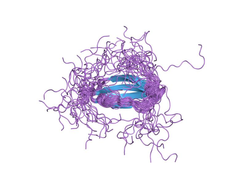 Cartoon representation of the molecular structure of protein registered with 1q38 code.